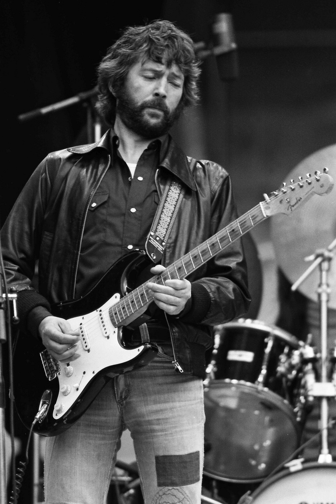 Eric Clapton Rotterdam June 23, 1978